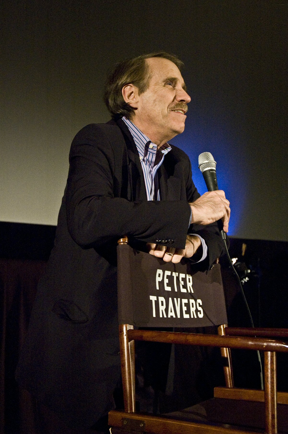 Personal photo of Peter Travers.